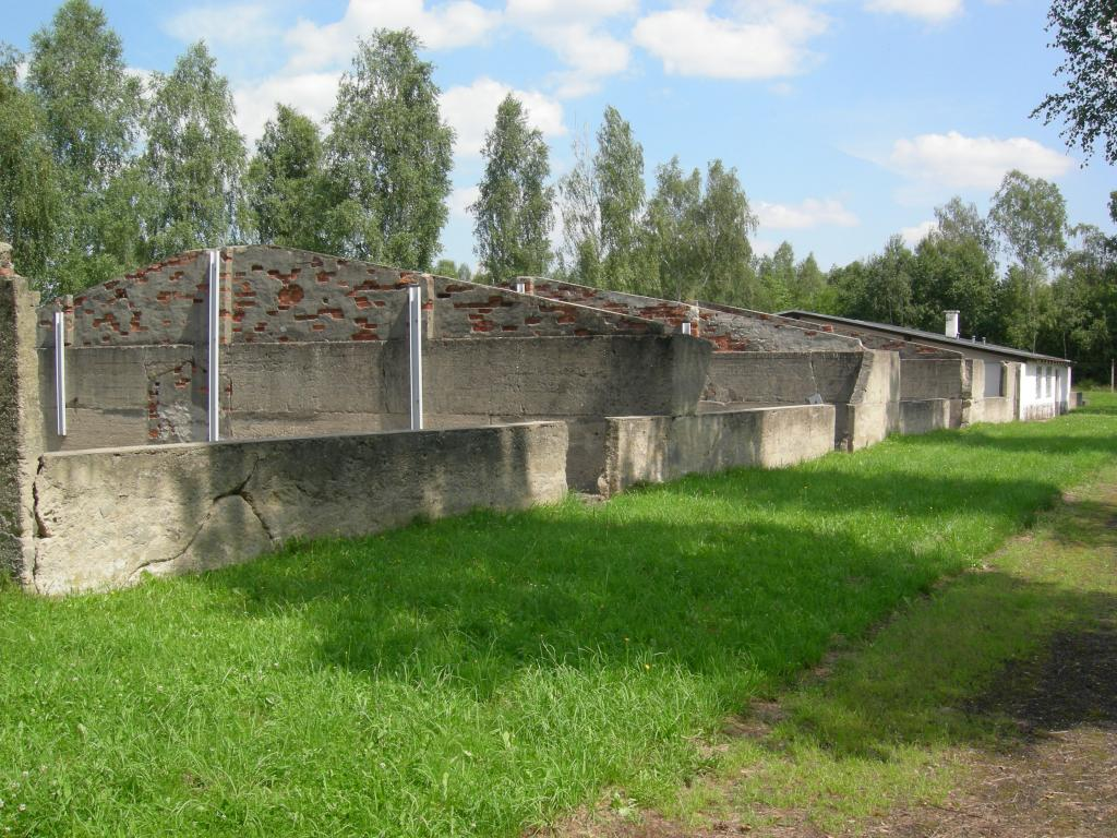 Traces of barracks in the former place of the Stalag 318/VIII F Lamsdorf for russian prisoners.